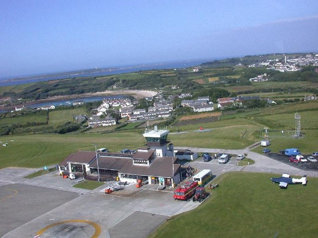 Taking off by helicopter from St Mary's Isles of Scilly We'll be back!